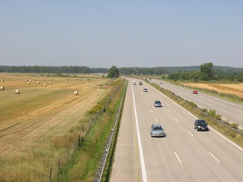 The Berlin Ring motorway (A 10) east of the Dreieck Nuthetal intersection as seen from the bridge between Fahlhorst (municipality of Nuthetal) and Gröben (city of Ludwigsfelde), Brandenburg.